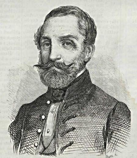 Portrait of the writer, poet Gábor Fábián